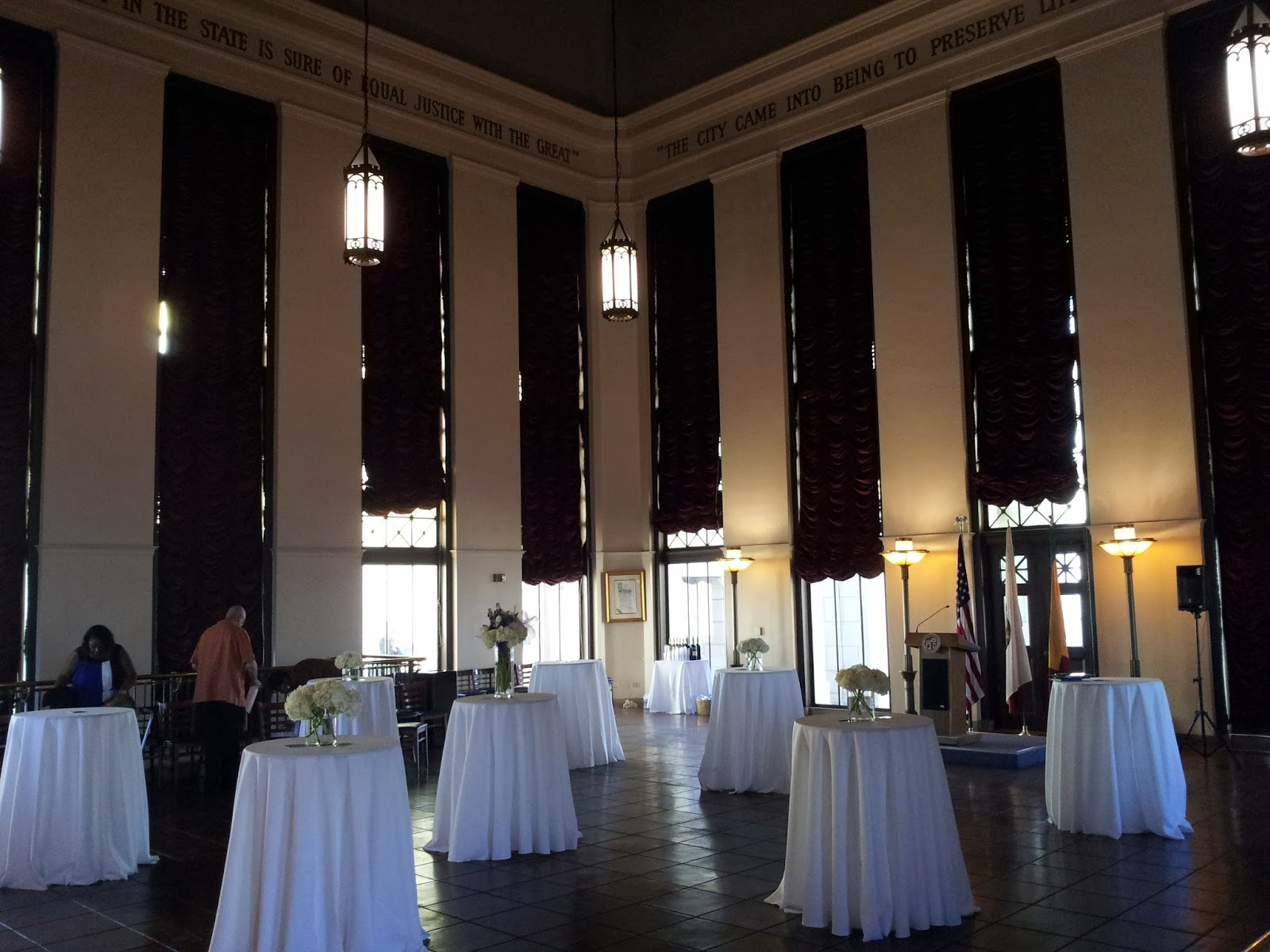 This is the single highly vaulted room that forms the whole interior of L.A. City Hall's 27th floor. This rarely photographed space is distinguished by the interior sides of the thick oblong columns that make up the most recognizable feature of the building's central tower. Here, the room was being prepared for a celebration in honor of a retiring longtime City employee.